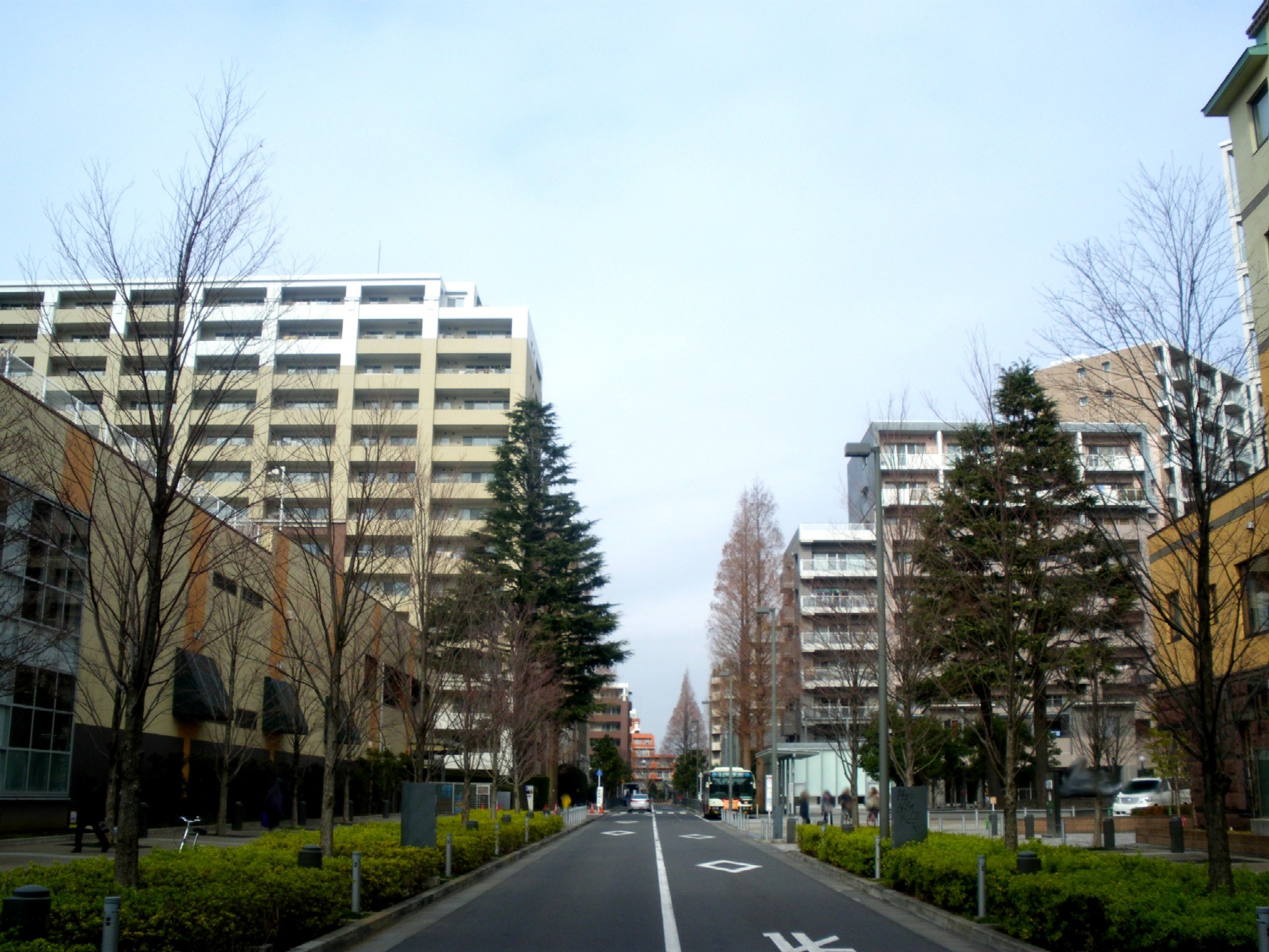 A photo of an overview of Promenade Ogikubo(right),In The Park Ogikubo(left), an apartment area at Momoi,suginami-ku,Tokyo,Japan.